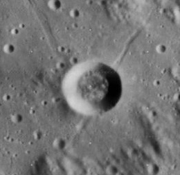 Rhaeticus A, on the moon.